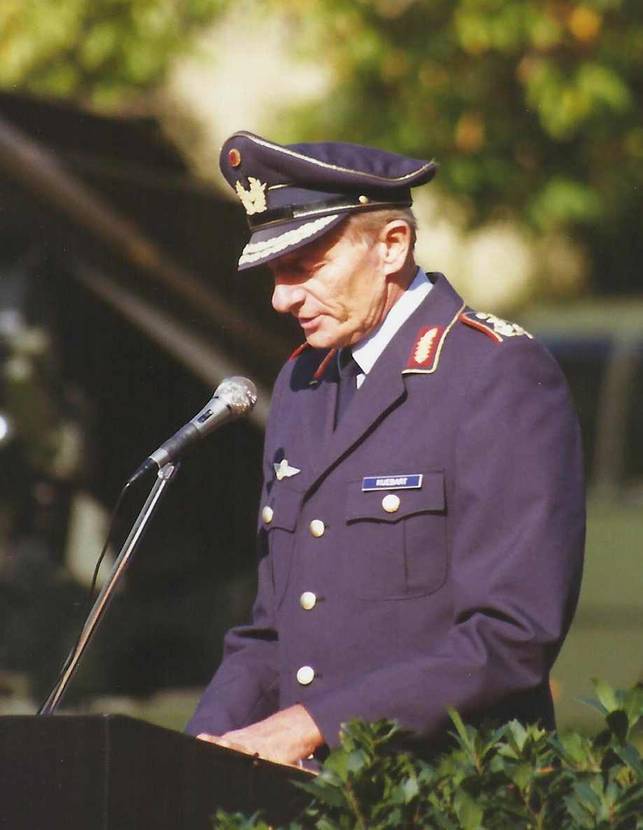 Generalleutnant Hans-Jörg Kuebart speaking at the official dismission of Flugabwehrraketengeschwader 35 (FlaRakG 35) at the Caspari-Kaserne in Delmenhorst, Germany